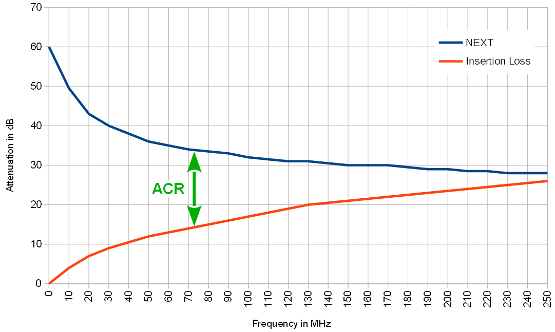 Diagram of Attenuation to Crosstalk Ratio (ACR), a parameter for the performance of a communication link.